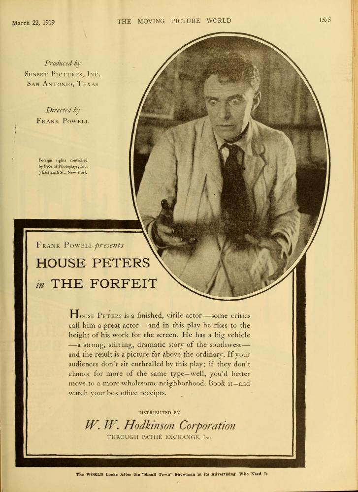 Advertisement in Moving Picture World, March 1919 for the American film The Forfeit (1919).